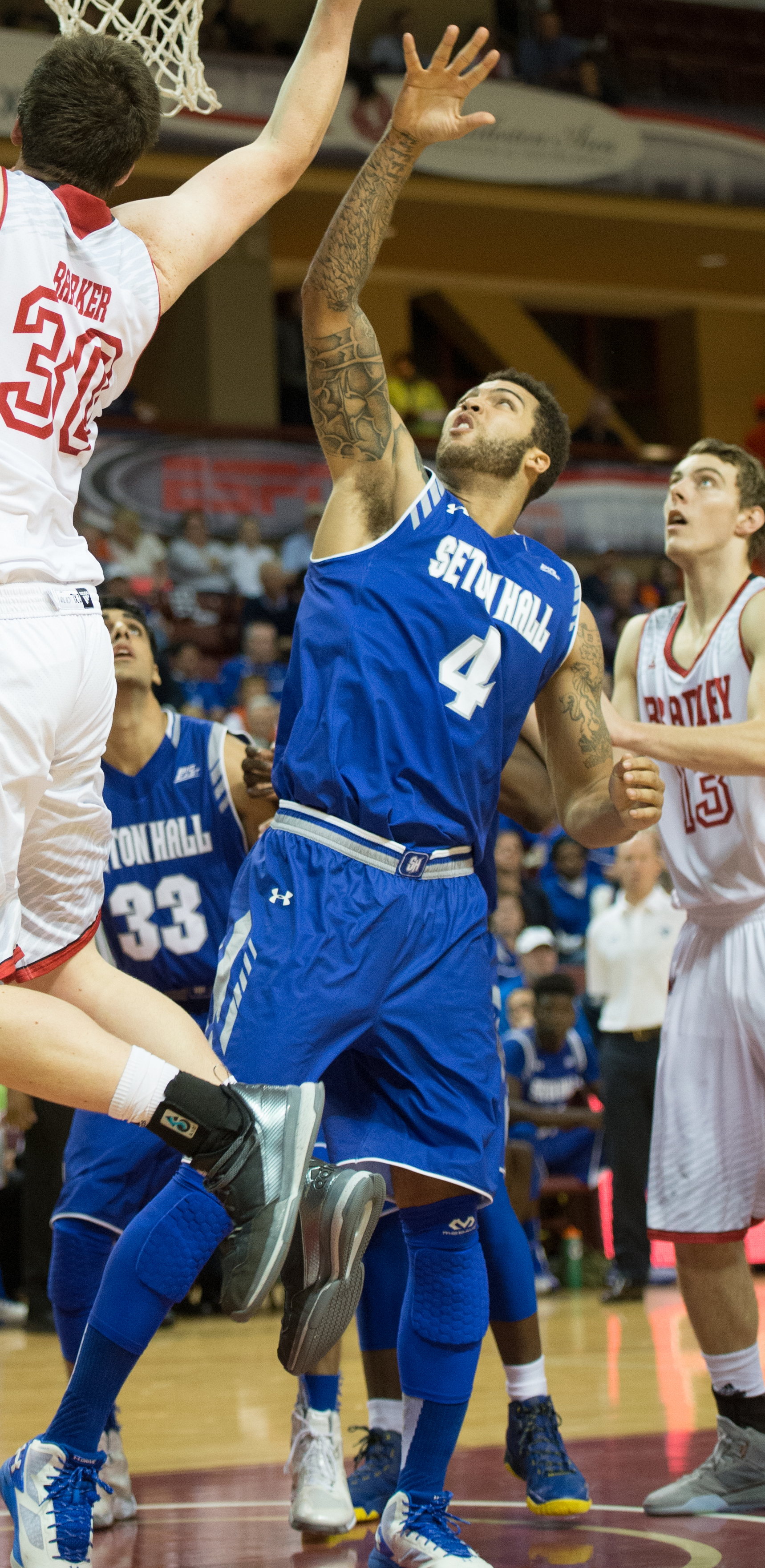 Seton Hall vs. Bradley